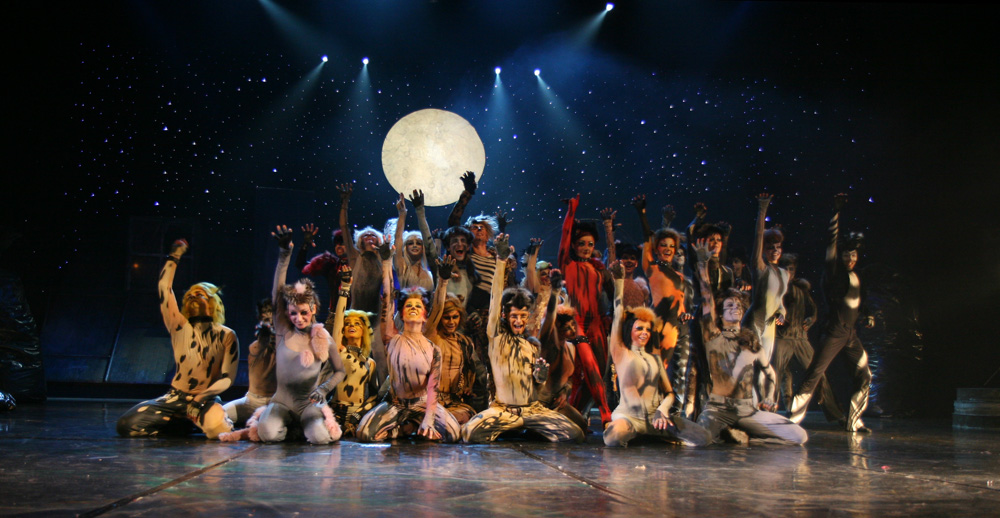 "Cats" cast, Roma Musical Theatre in Warsaw, 28.09.2007.